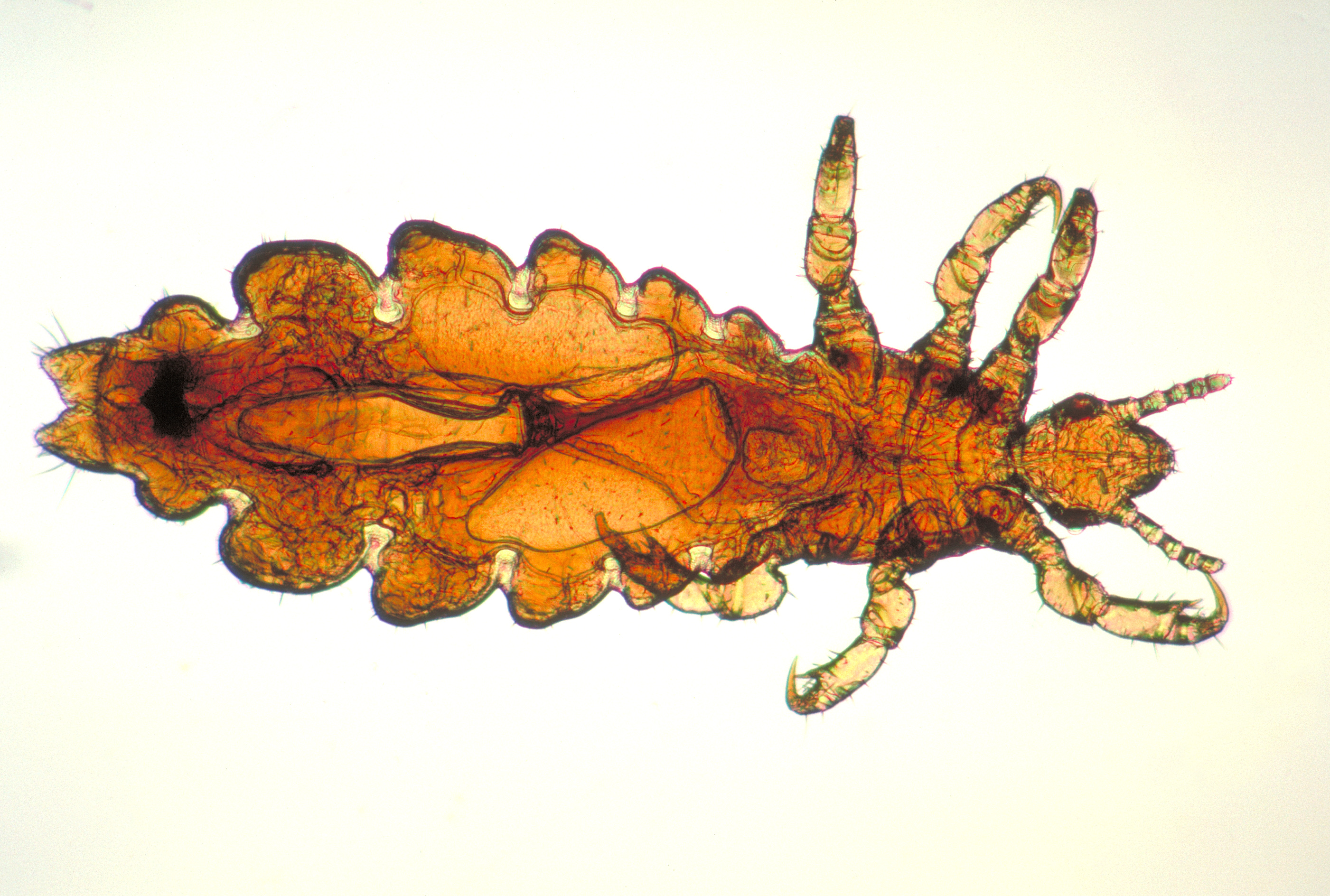 Pediculus humanus var capitis AKA head louse; public domain from [1] Content Provider(s): Centers for Disease Control and Prevention (CDC)/Dr. Dennis D. Juranek Now in Commons also.[1]--Gyllenhali 15:08, 28 December 2005 (UTC)